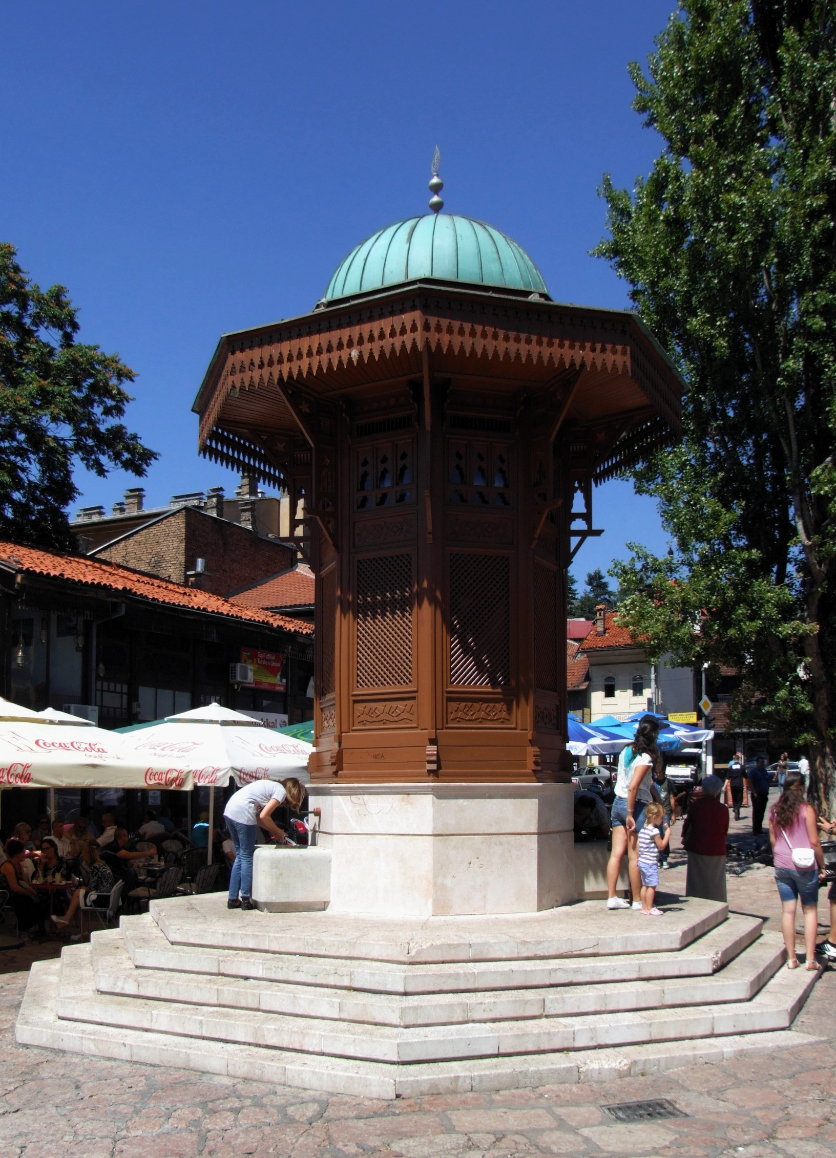 Sebilj fountain, Sarajevo, BiH